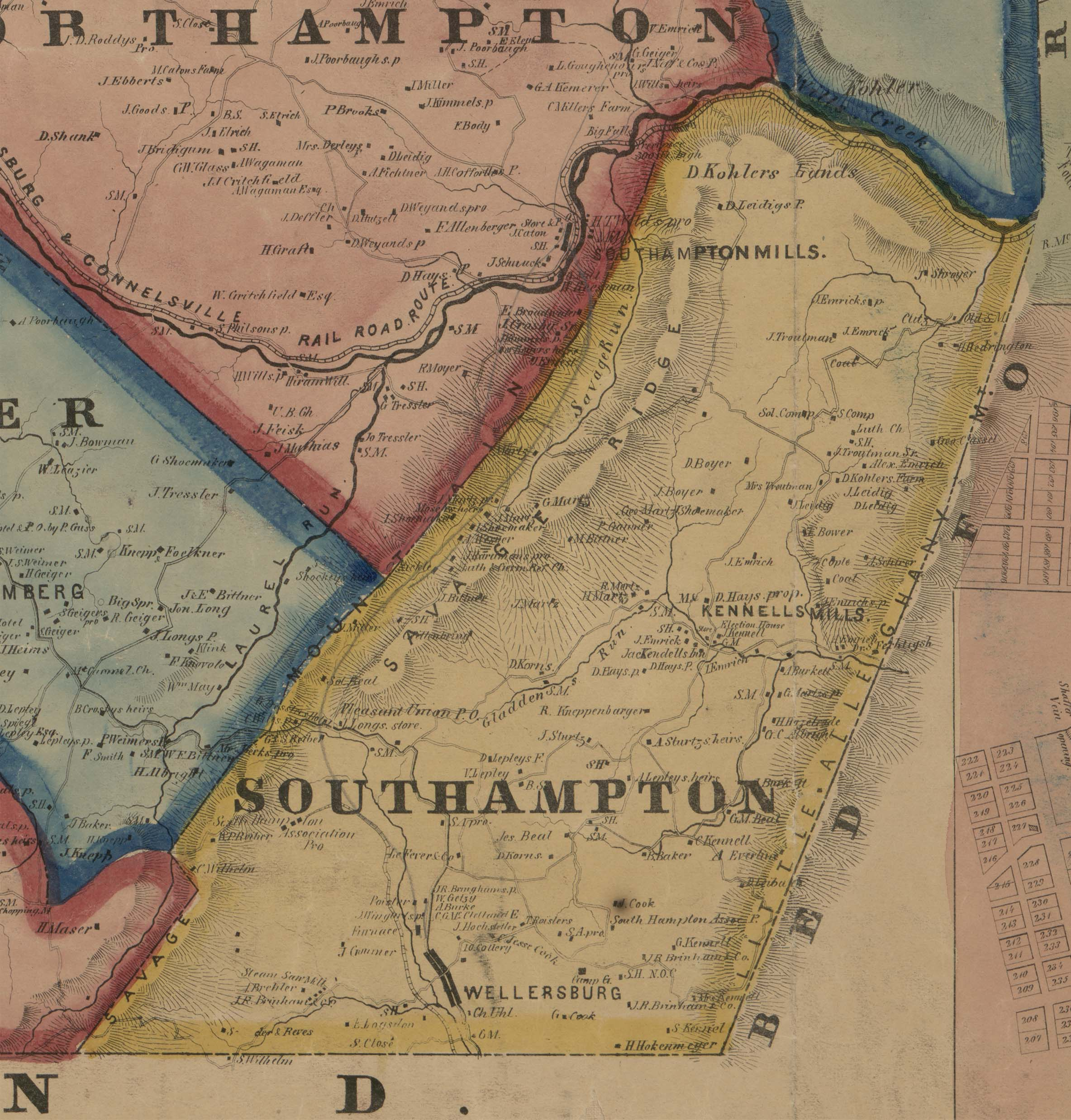 Map of Southampton Township, Somerset County, Pennsylvania, taken from 1860 Edward L. Walker map of Somerset County available at the Library of Congress website